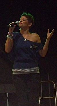 Alessandra Amoroso, an italian singer, in Alcamo during her tour, "Stupida Tour"